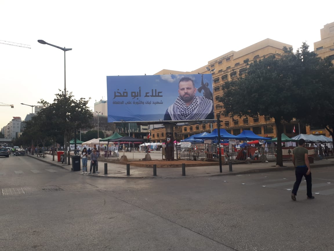 Picture of Alaa Abou Fakher at Martyr place, Beirut